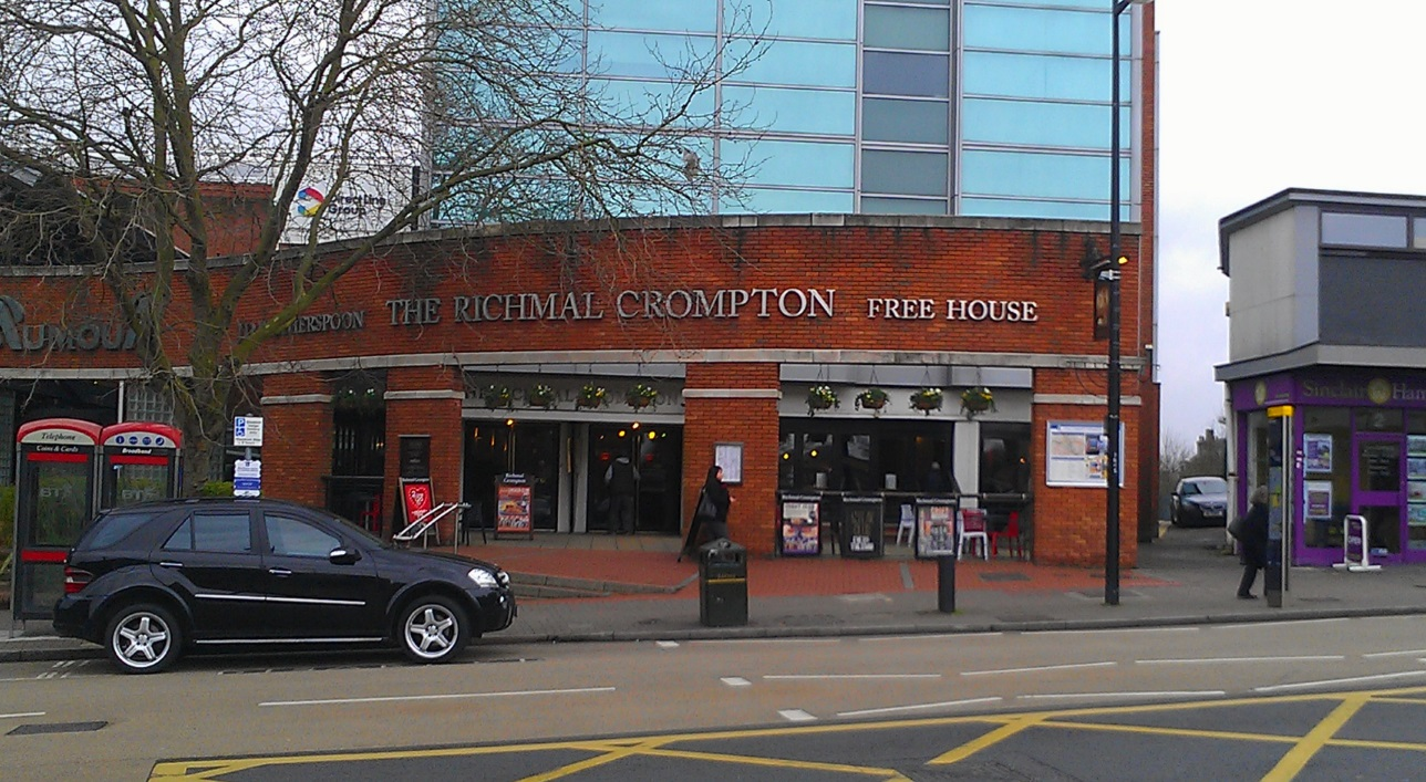 Frontage of the Richmal Crompton pub, named after local resident Richmal Crompton, in Bromley, London Borough of Bromley.